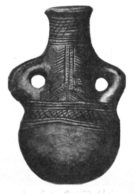 A specimen of Luba pottery. A water-cooler from Luluabourg [Lulua River] (1908)